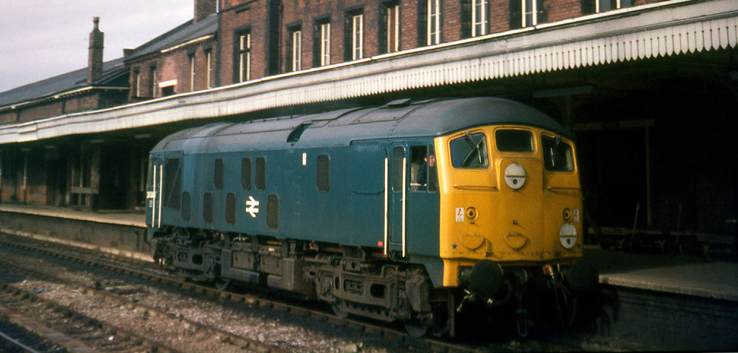 2404? trundles light engine through Walsall on 26/08/75, much to my excitement on the first day of my first ever Midland Railtourer ticket. I've not cropped this somewhat unbalanced image as I've no others showing the South Staffordshire Railway's handsome station buildings at Walsall. Scanned from a Boots Colourslide II transparency taken with an old Halina compact camera.